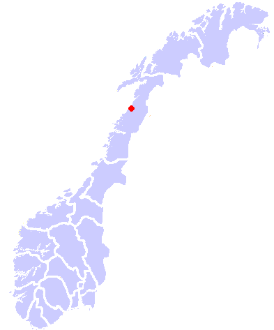 Map of Mo i Rana (Norway) location